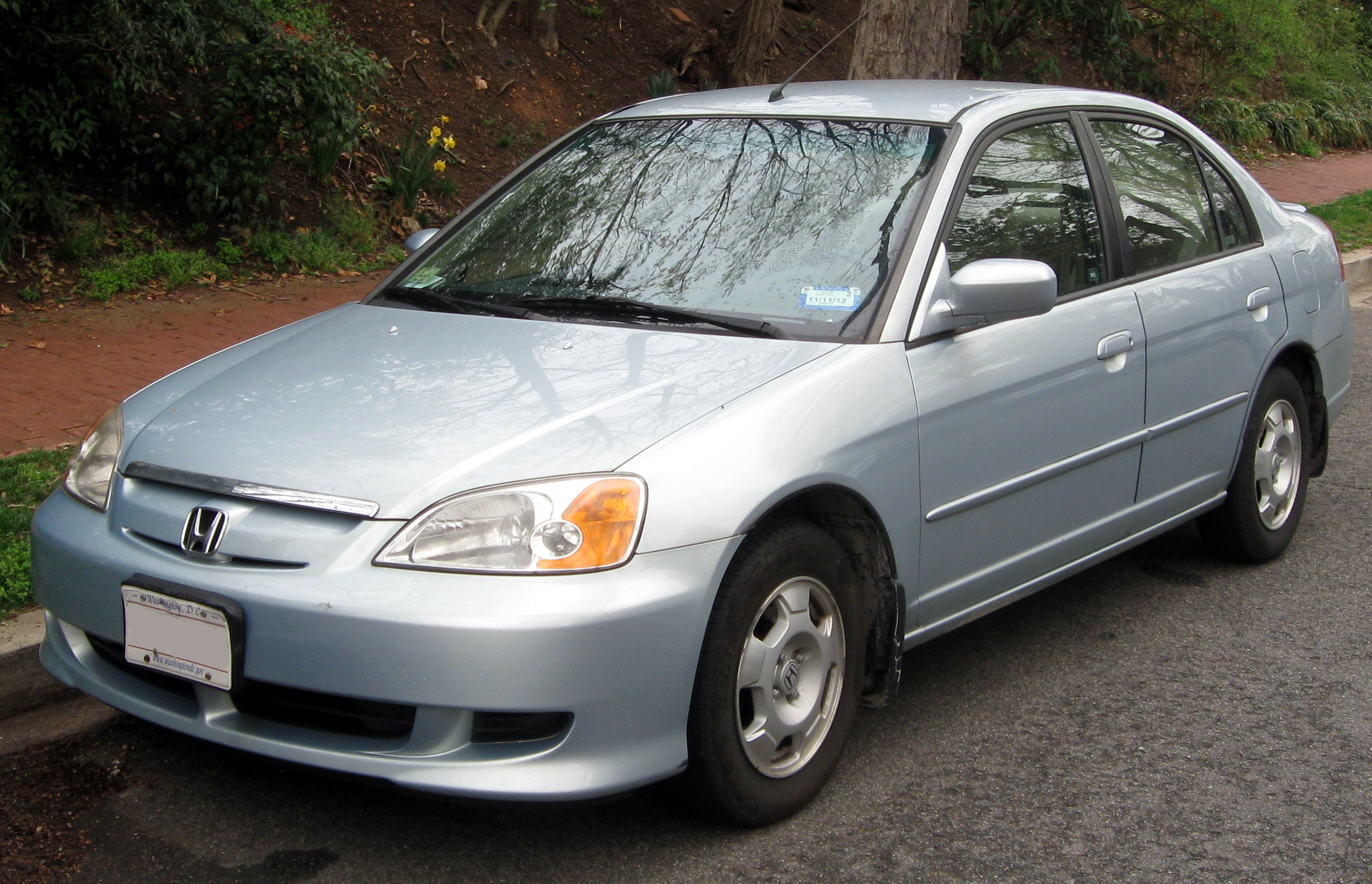 2003 Honda Civic Hybrid photographed in Washington, D.C., USA.